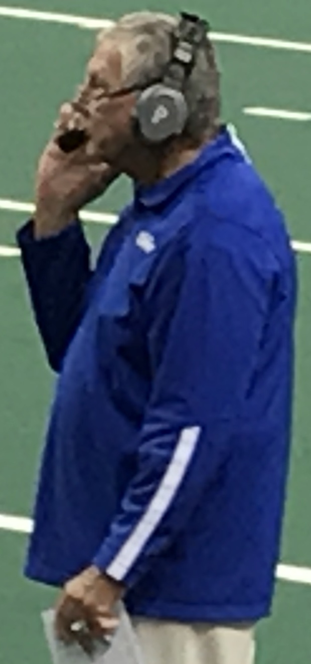 Doug Kay on April 22, 2017